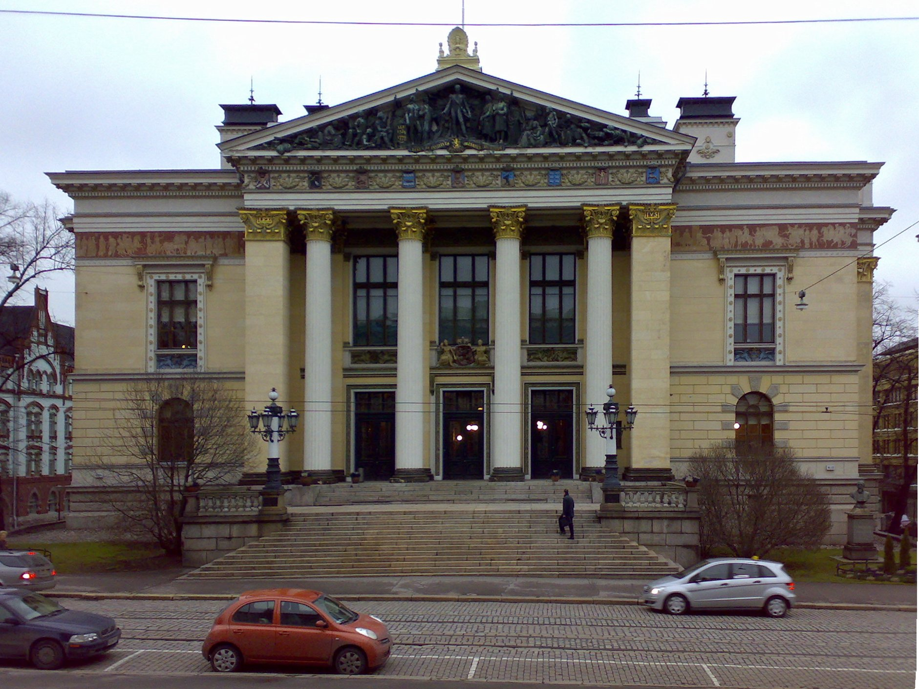 The House of the Estates in Helsinki, Finland.